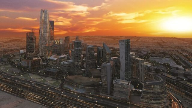 King Abdullah Financial District